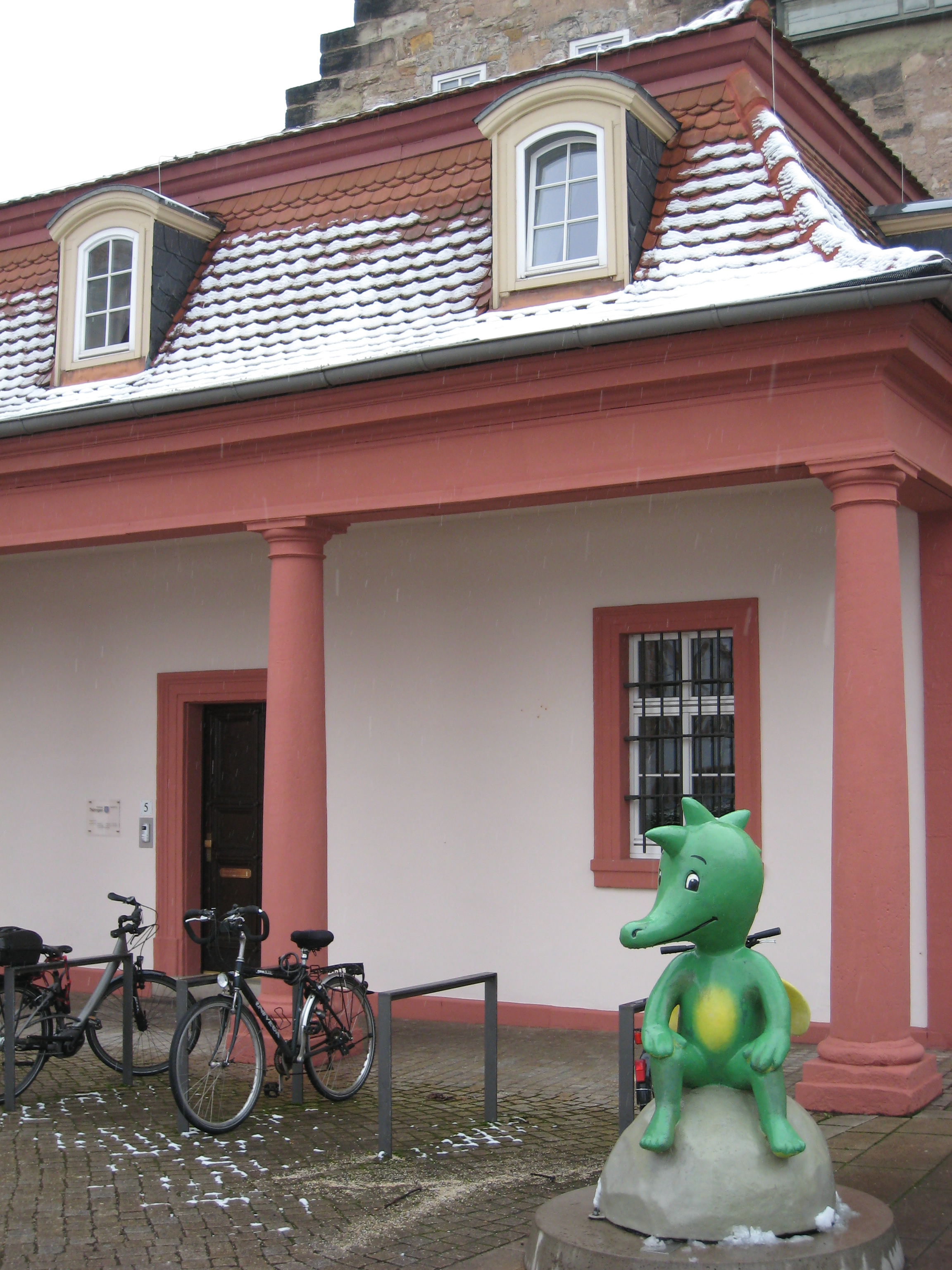 Statue of Tabaluga in Erfurt at Hirschgarten